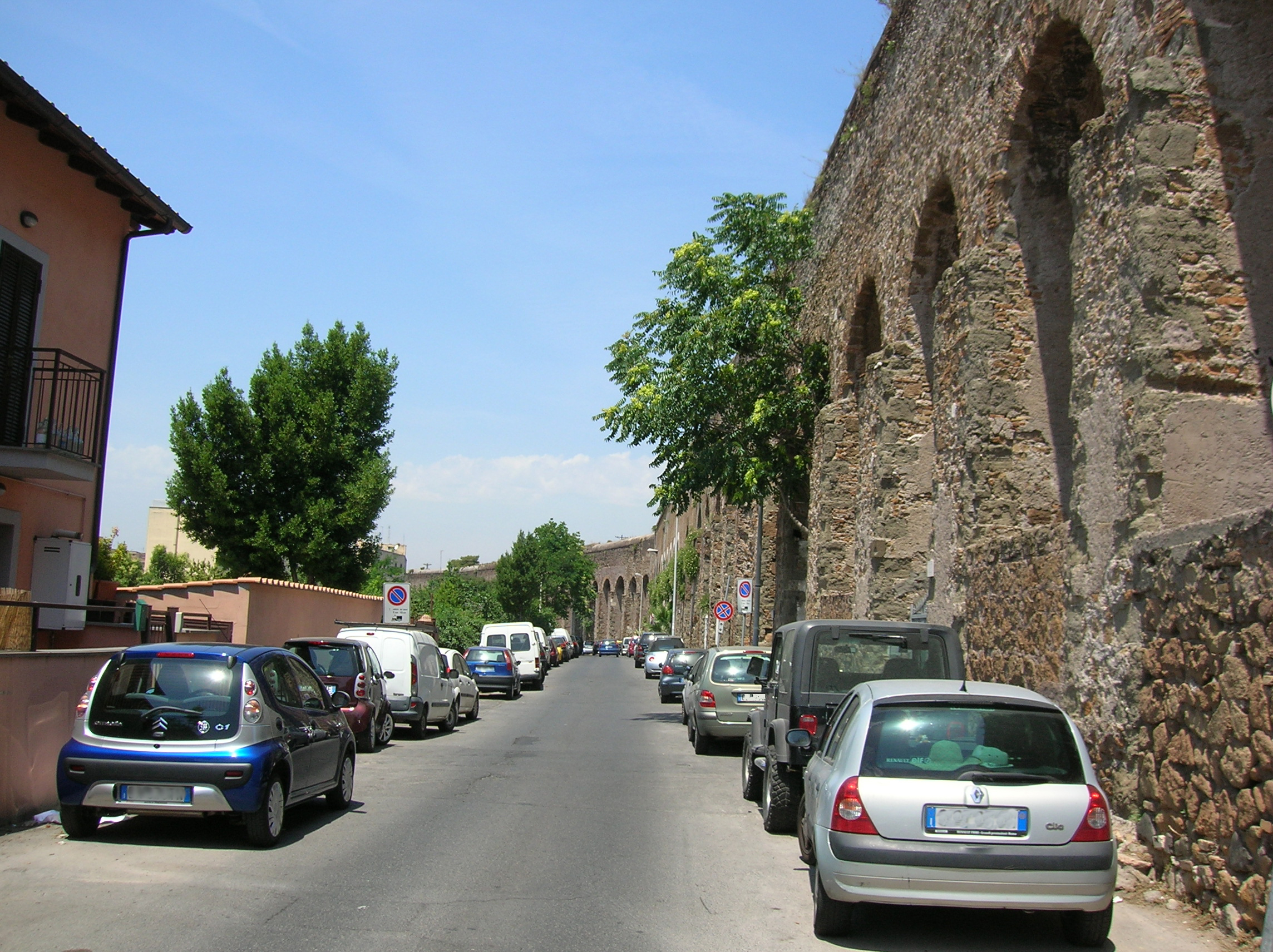 Acquedotto Felice in Rome, via del Mandrione